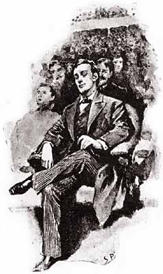 Illustration of the Sherlock Holmes short story The Red-Headed League, which appeared in The Strand Magazine in August, 1891. Original caption was "ALL AFTERNOON HE SAT IN THE STALLS."